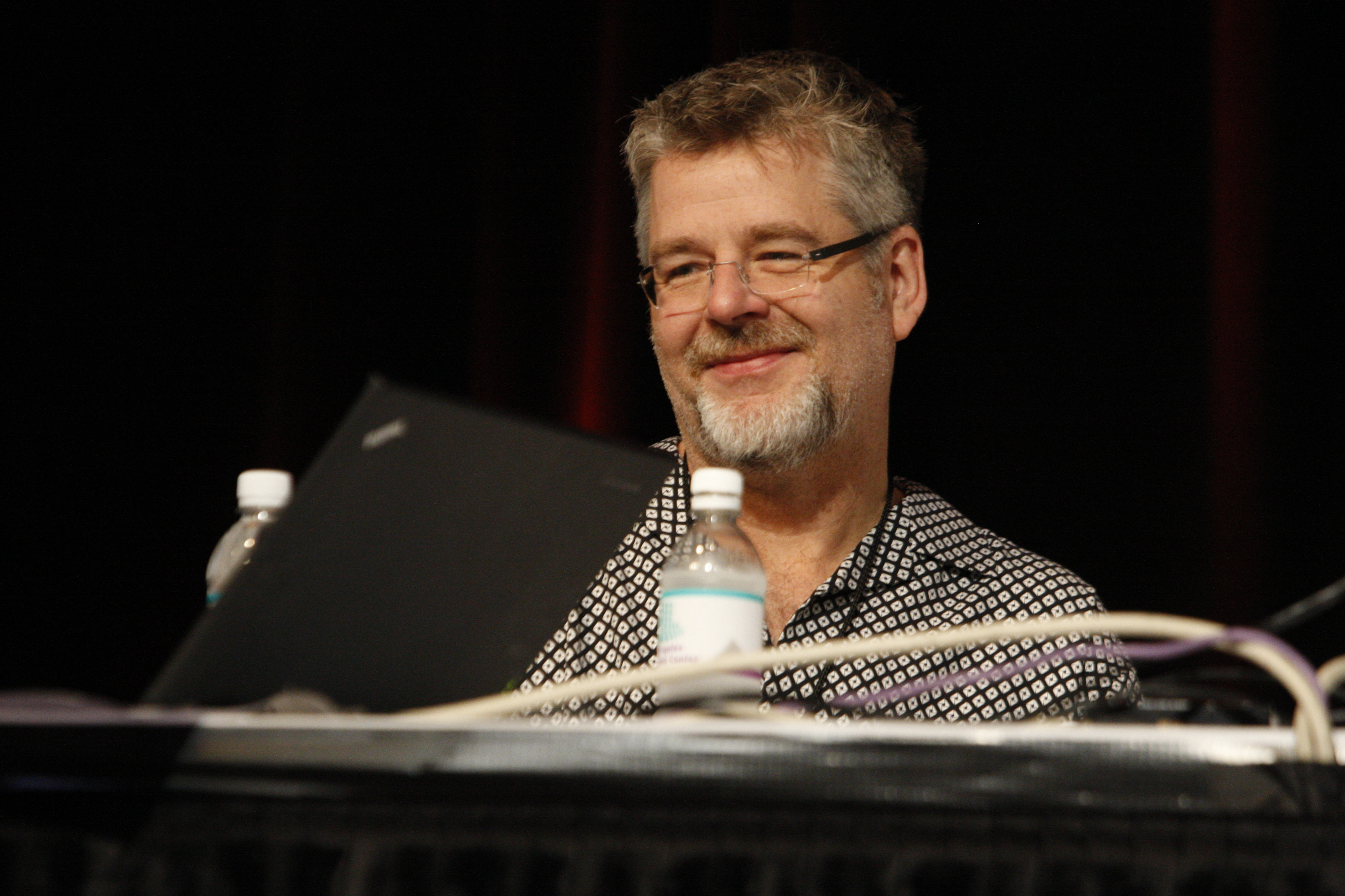 Professional Developers Conference 2009, Technical Leaders Panel: Don Box